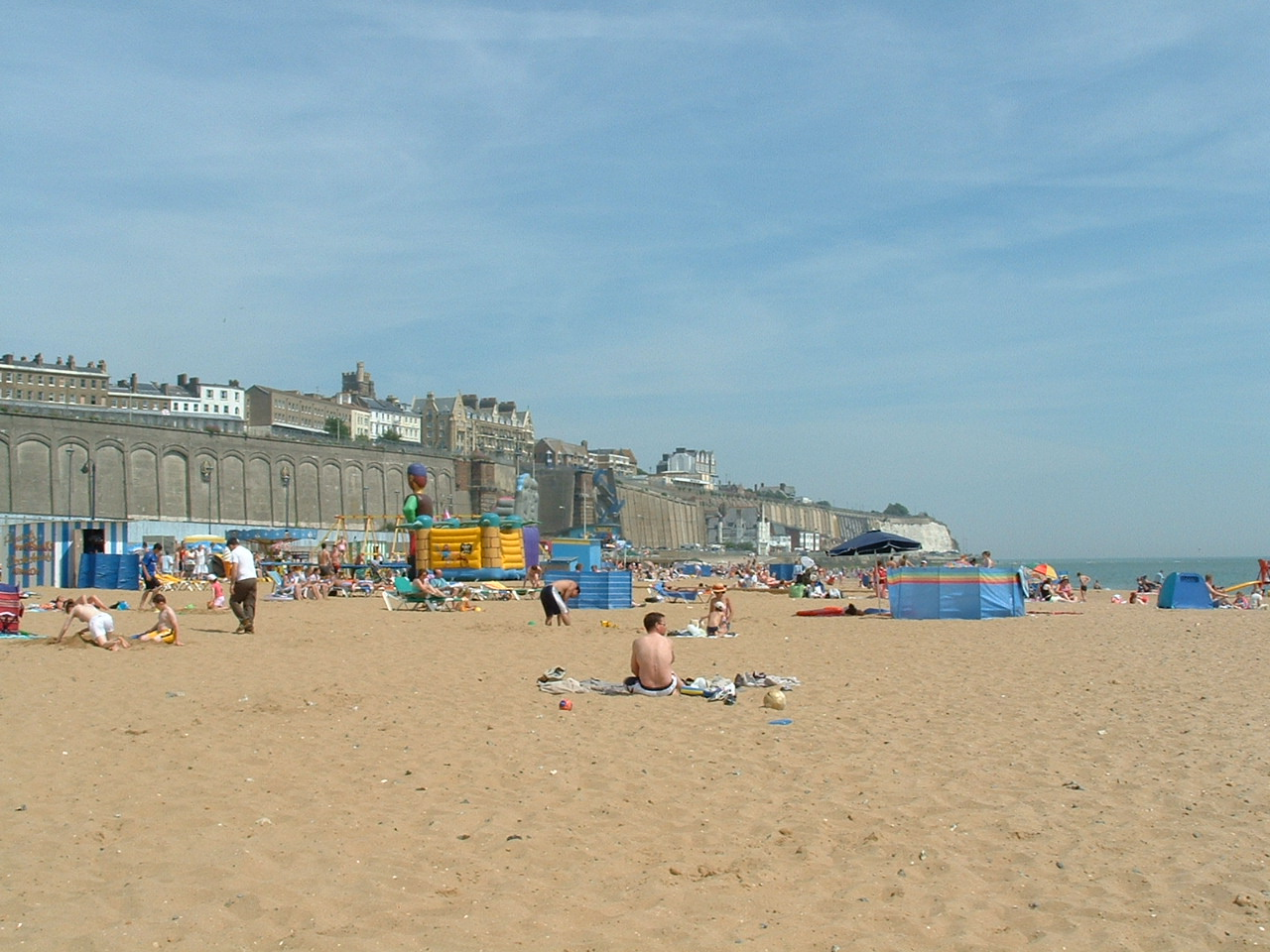 I took this photo myself at Ramsgate Beach on 11/6/06 using a Fuji Finepix 2800-Zoom